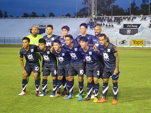 Air Force Central FC